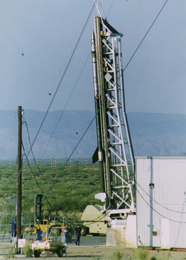 Two calorimeter arrays have already measured cosmic x-rays as part of a joint undertaking of the University of Wisconsin-Madison and NASA's Goddard Space Flight Center known as the X-ray Quantum Calorimeter (XQC) project. Carried aloft on a Black Brant 8 sounding rocket, the instrument observed the diffuse soft x-ray emission from a large solid angle at high galactic latitude.